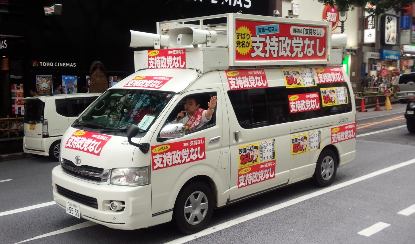 The election campaign car of No Party to Support and Hidemitsu Sano, the party's leader, July 9th 2016, Shibuya Tokyo